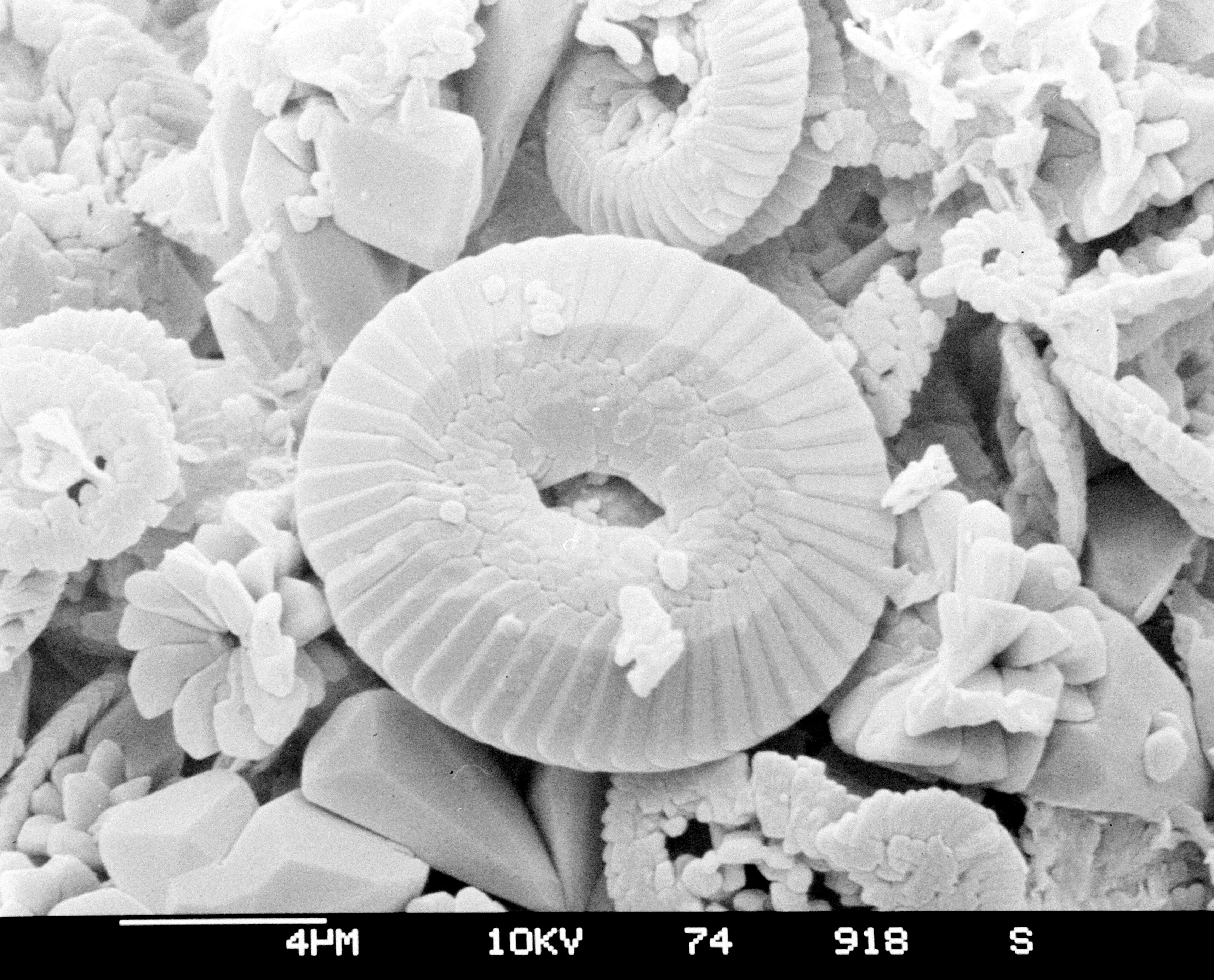 Microfossils from a sediment core of the Deep Sea Drilling Project (DSDP), Coccolithus pelagicus